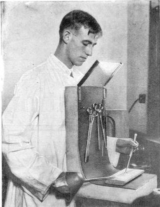 A worker working with radium standing behind a lead shield to protect himself from the gamma rays. He looks through a window of lead glass.